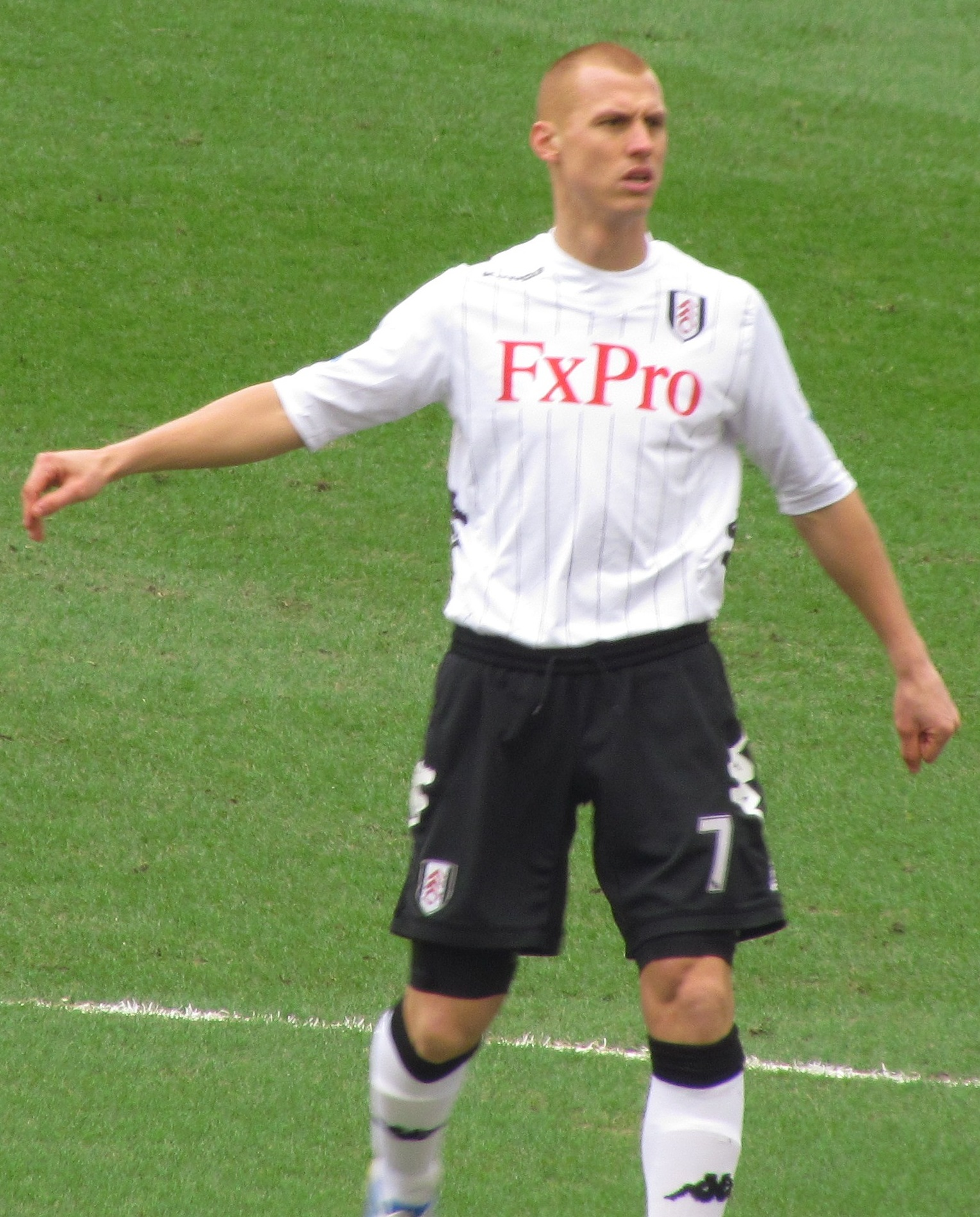 Steve Sidwell featuring for Fulham